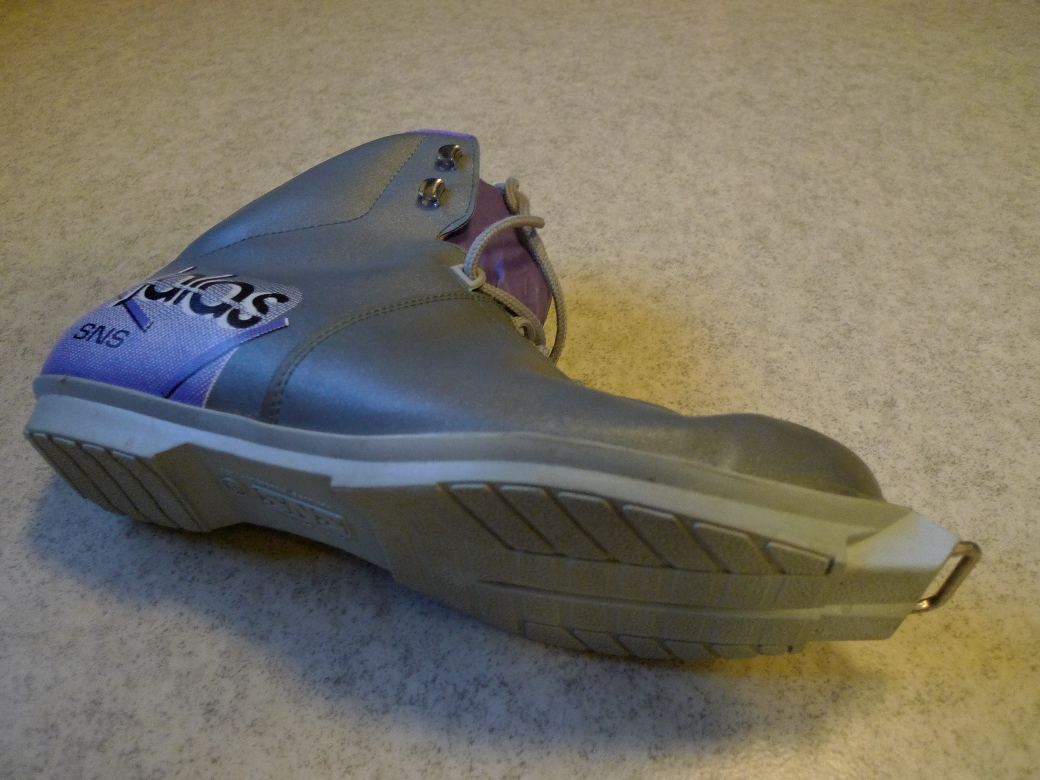 Bottom view of a cross-country skiing shoe with the original SNS binding.